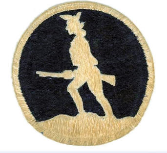 Emblem of the 467th Strategic Fighter Squadron